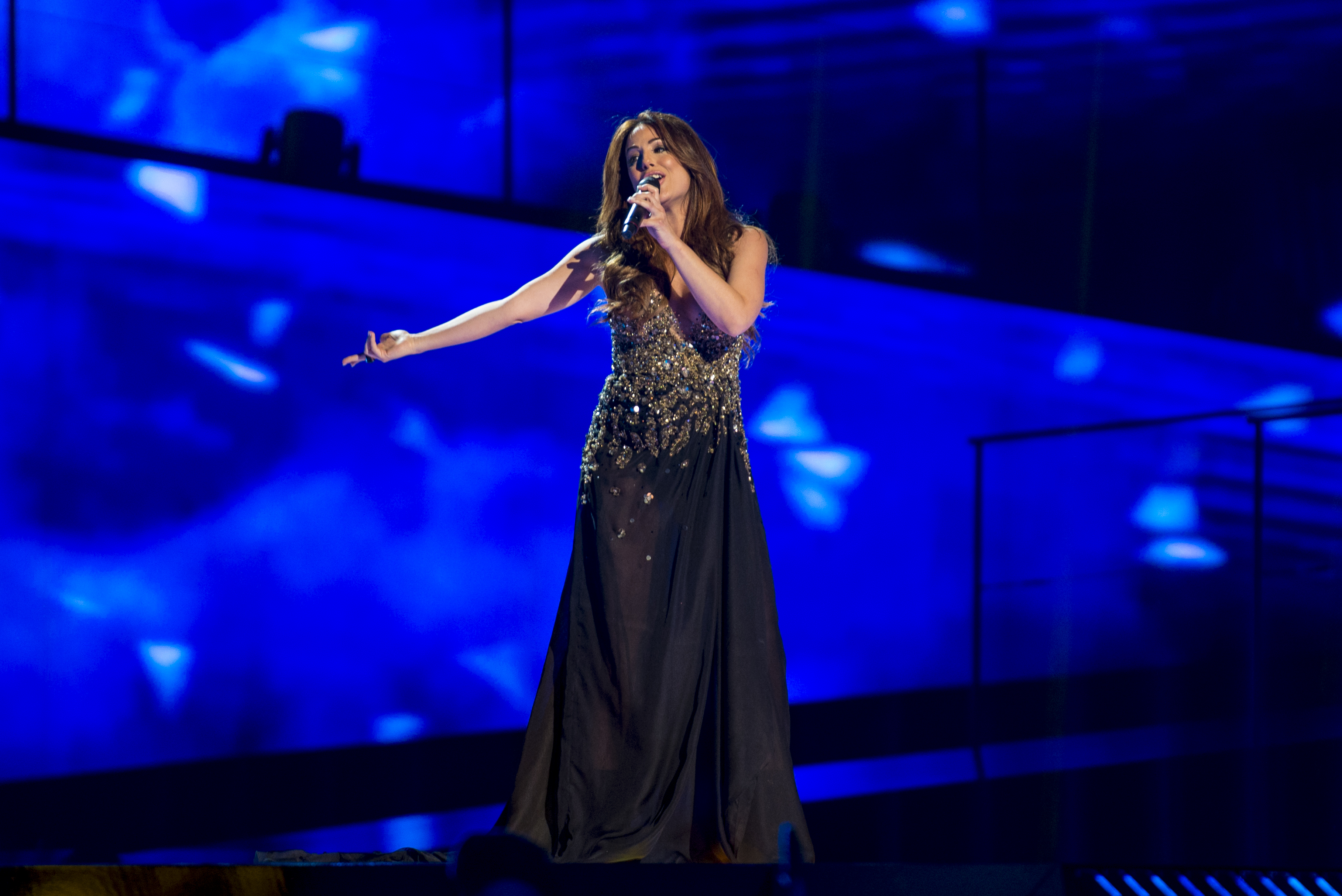 Ira Losco representing Malta with the song "Walk on Water" during a rehearsal before the first semi final of the Eurovision Song Contest 2016 in Stockholm. (Help translate this text)